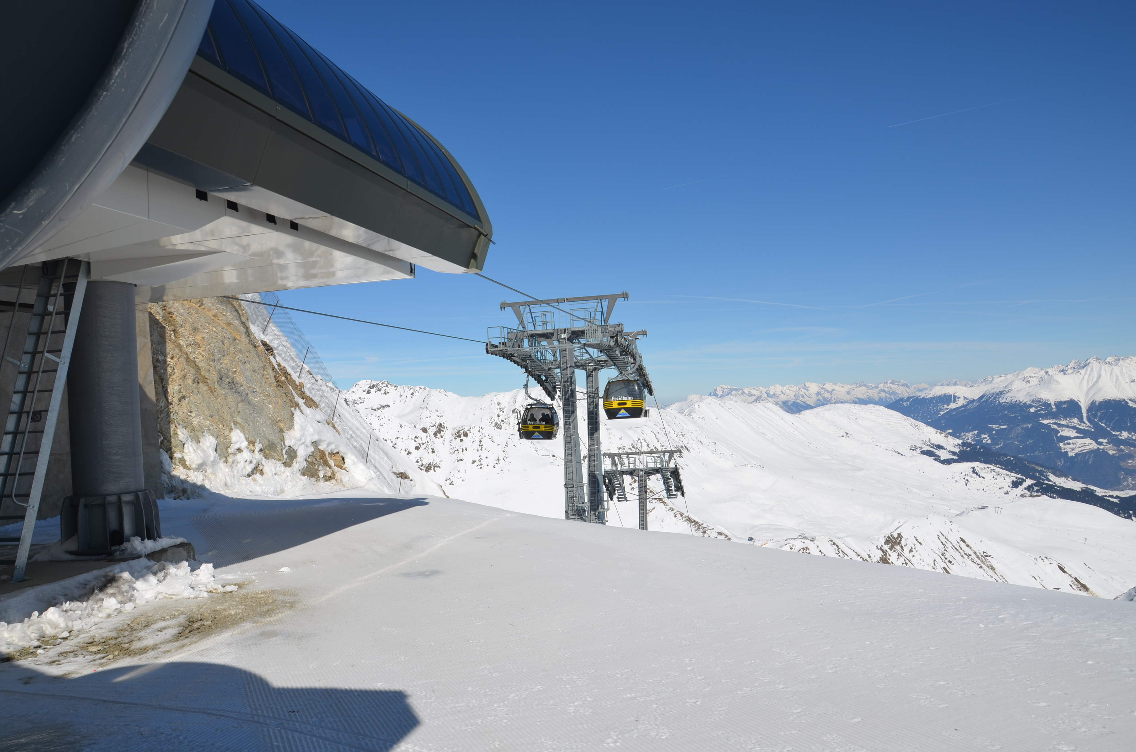 The Pezidbahn in the Skiingresort Serfaus, Tyrol, Austria